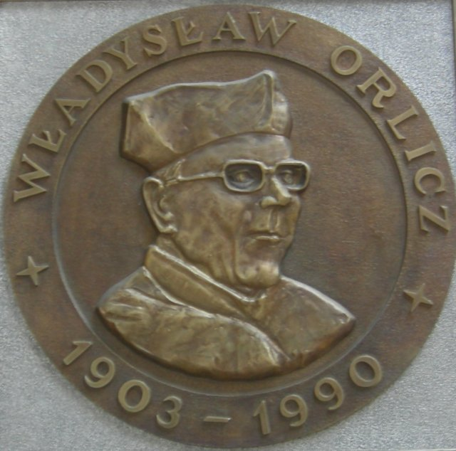 Władysław Orlicz, Polish matematician